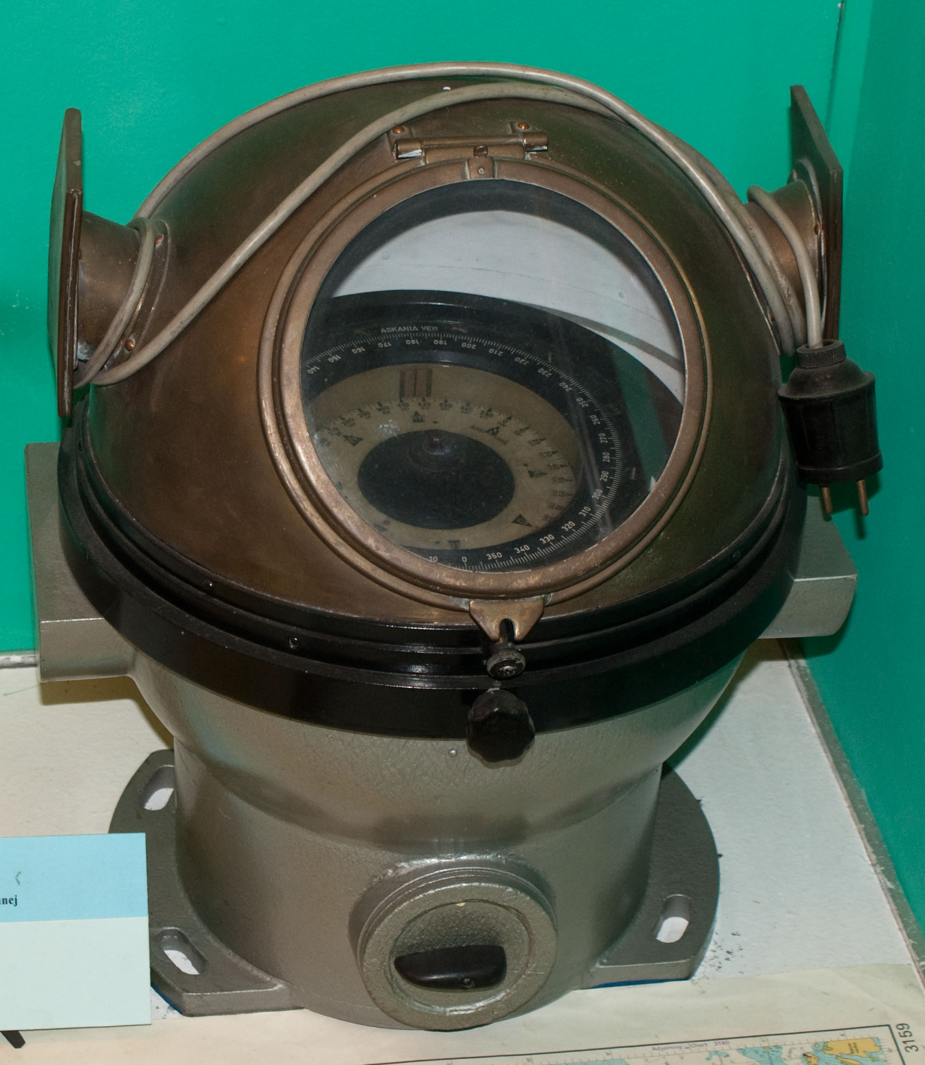 Console marine compass, manufactured in 1950s by V.E.B. Askania, GDR.